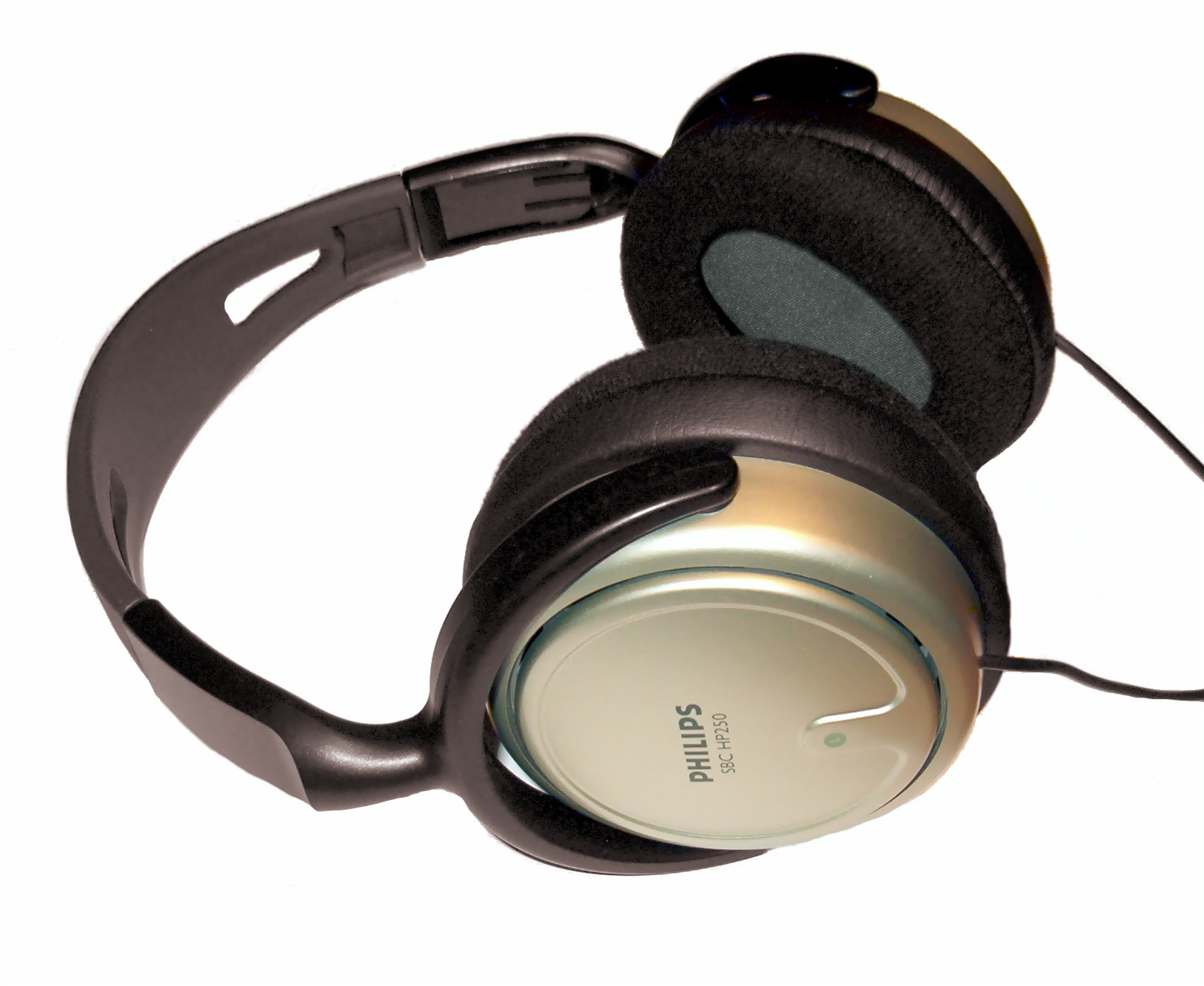 Philips headphones